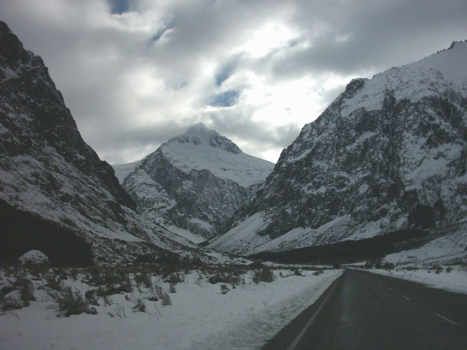 The road to Milford Sound, New Zealand somewhere east of the Homer Tunnel in early winter; Mount Talbot in the center